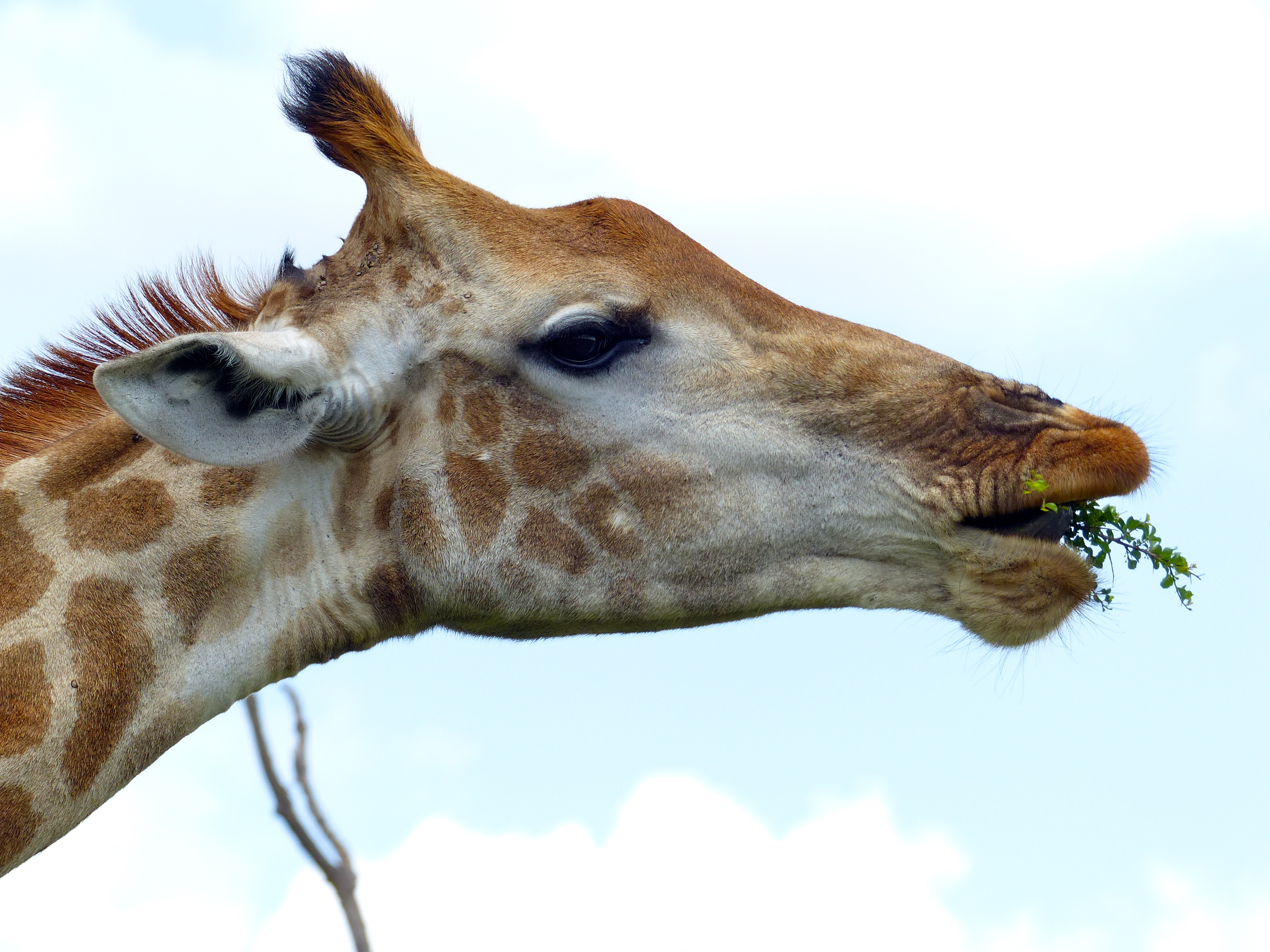 Duke's Waterhole, S137 Road South of Lower Sabie, Kruger NP, SOUTH AFRICA